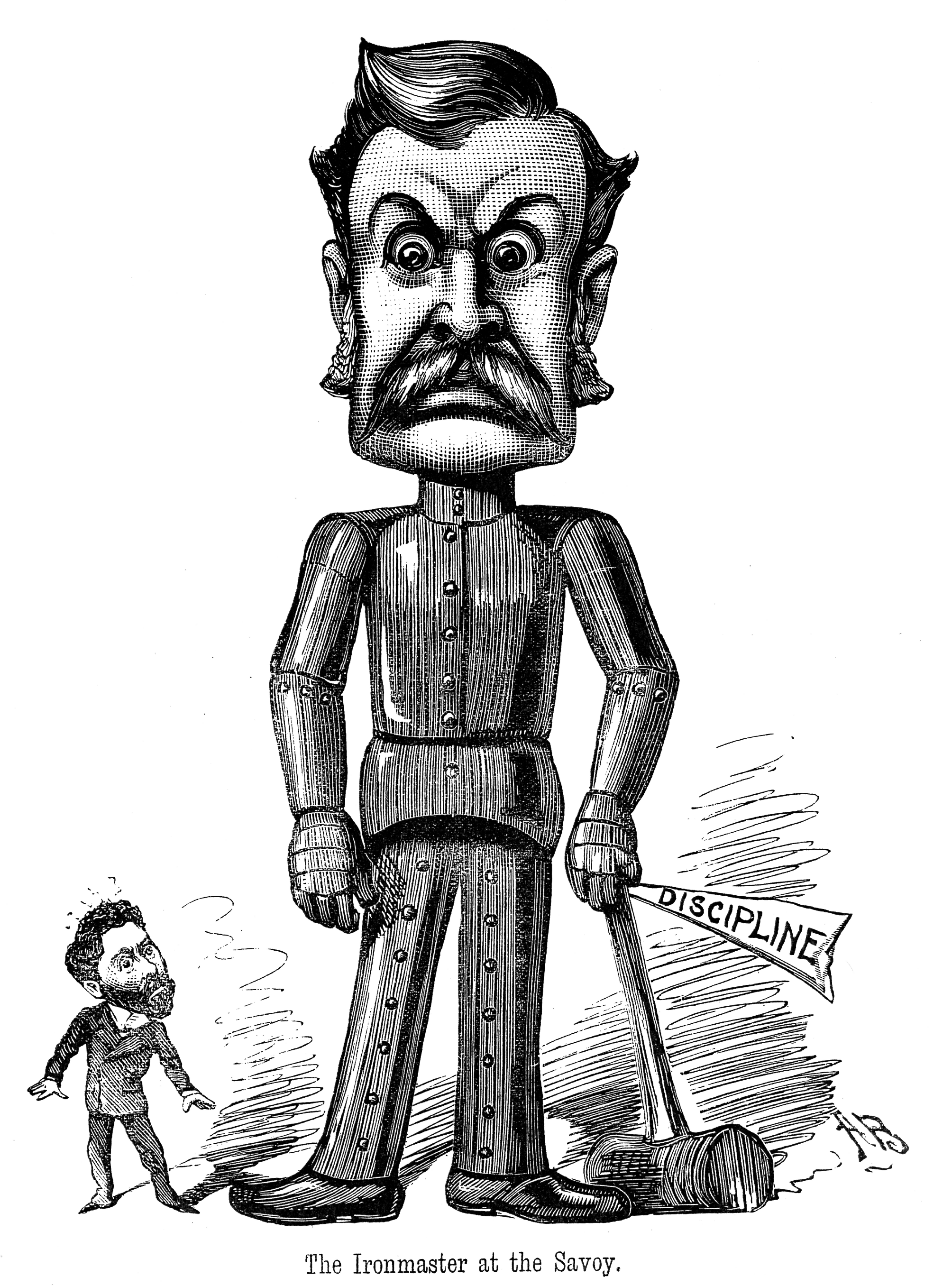 1885 cartoon by Alfred Bryan that appeared in The Ent’racte Annual for that year. W. S. Gilbert is depicted in a suit of armour, wielding a mallet labelled 'discipline' and towering over the diminutive figure of Richard D'Oyly Carte. When this was published, The Ironmaster, a play by Pinero had recently finished a successful run at the St James's Theatre, so this cartoon was a reference to a different type of 'iron master' at the Savoy Theatre.